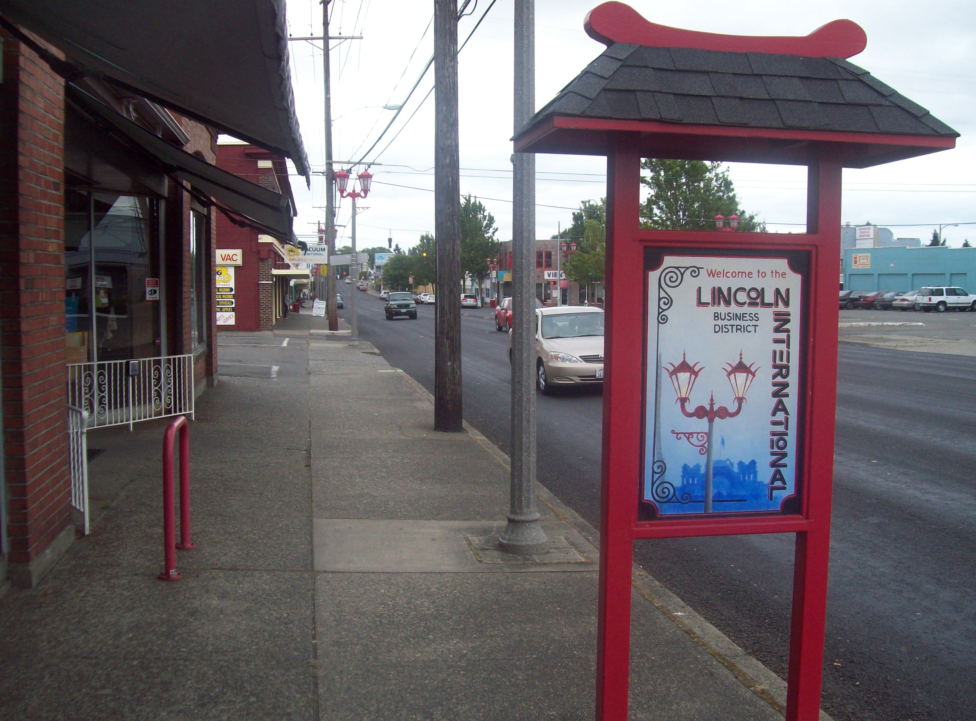 This is a photo taken on 38th St in the Lincoln neighborhood of Tacoma, Washington.